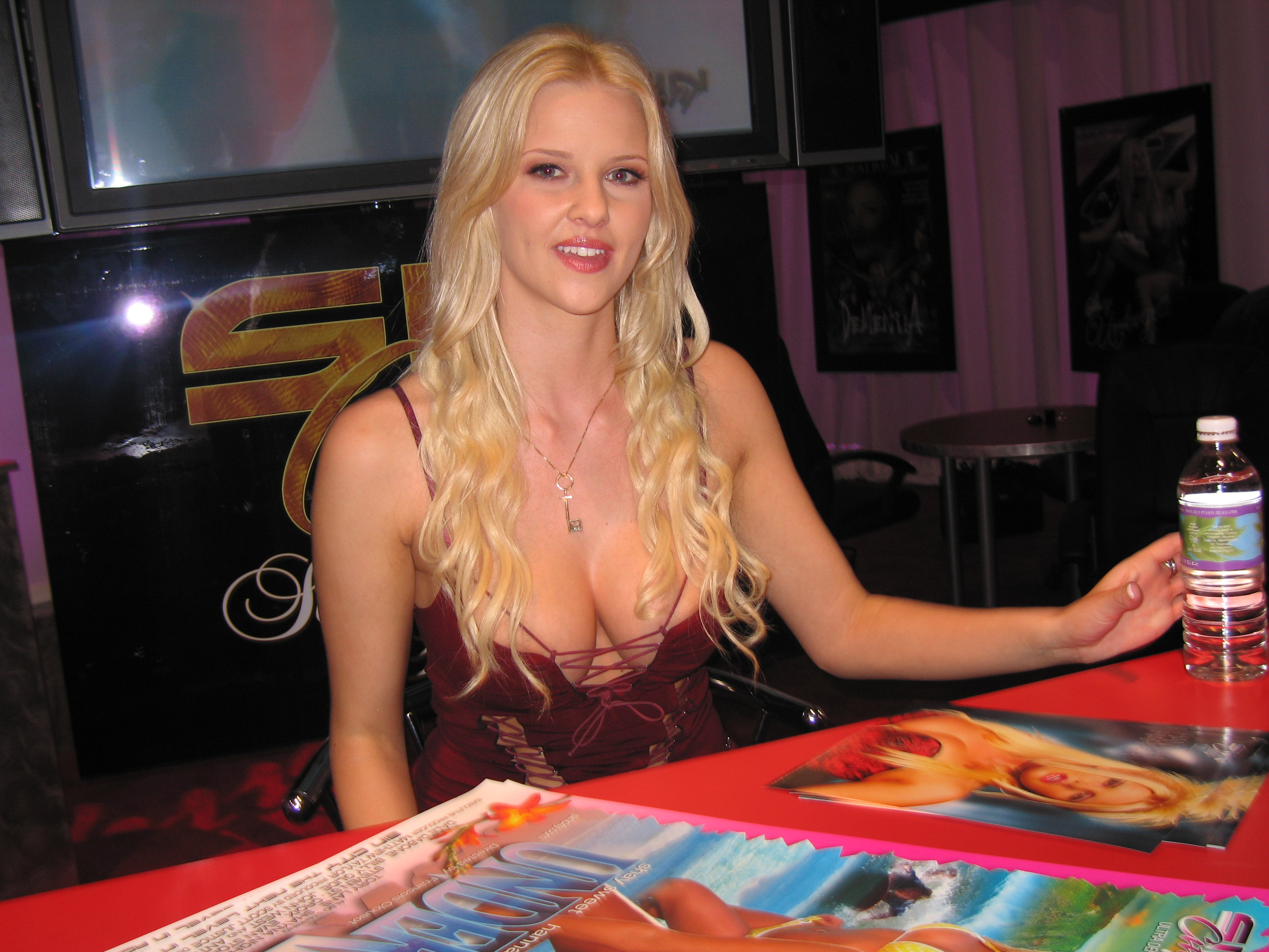 From the AVN expo in 2005